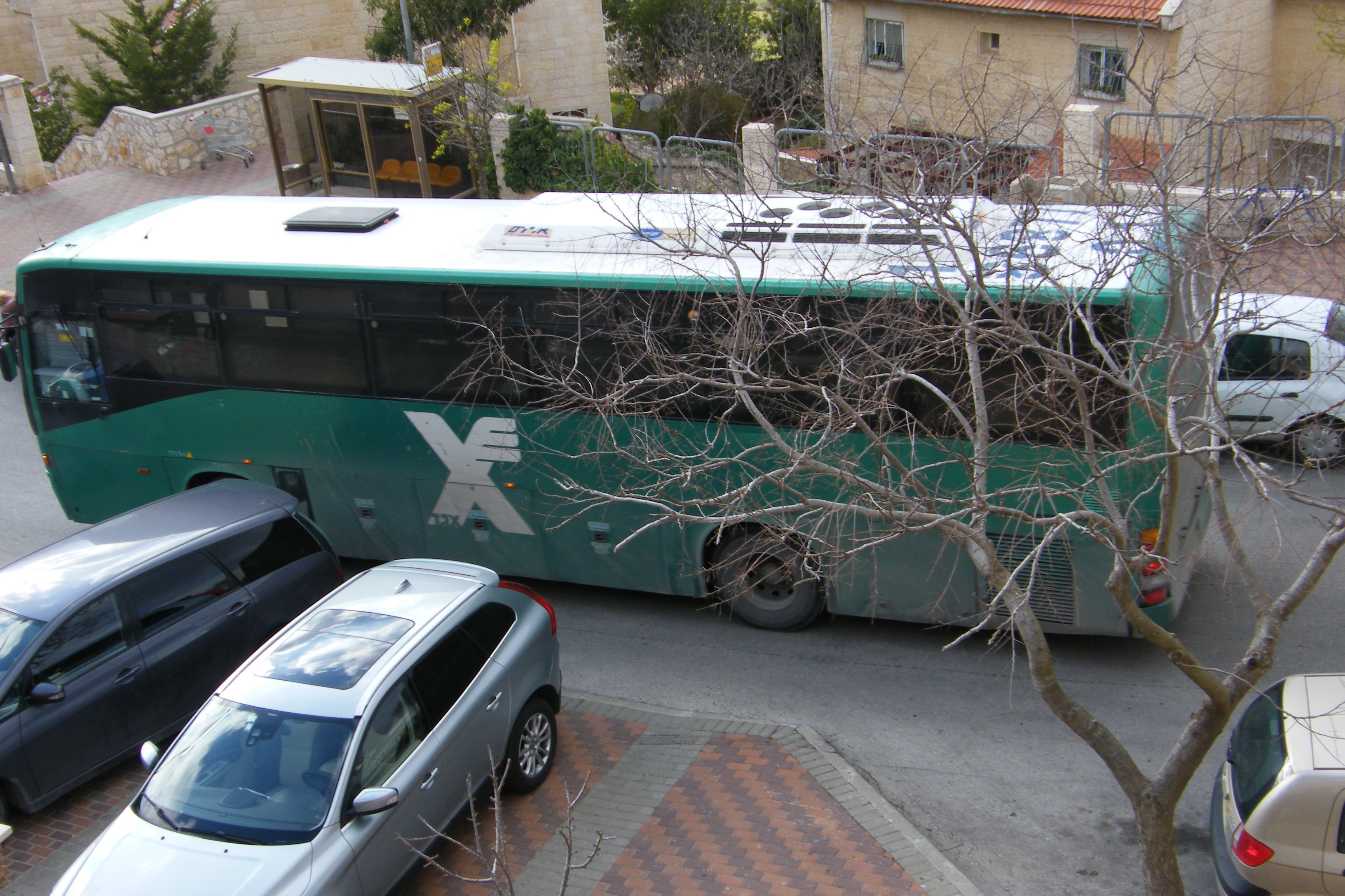 Bus In Efrat